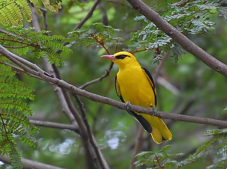 Indian Golden Oriole Oriolus kundoo foraging in Bangalore during winter